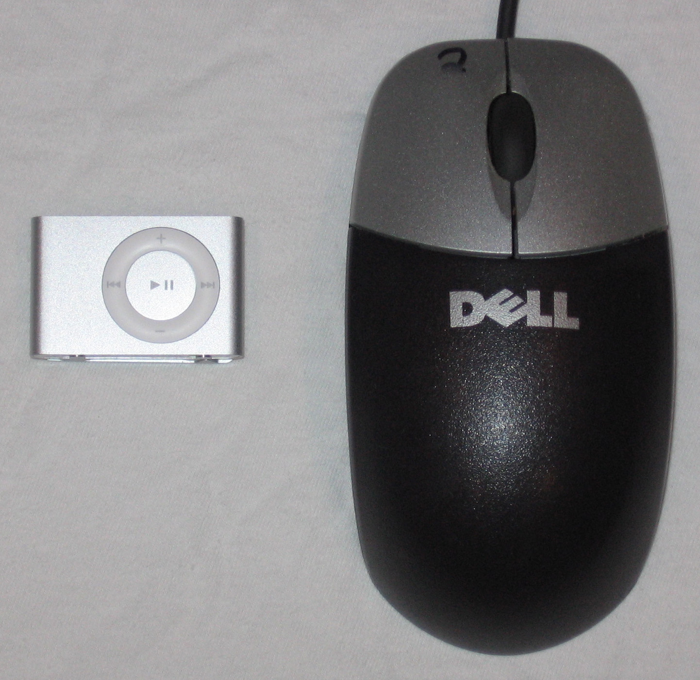 My own picture of a 2nd generation iPod Shuffle in comparison to a Dell mouse.